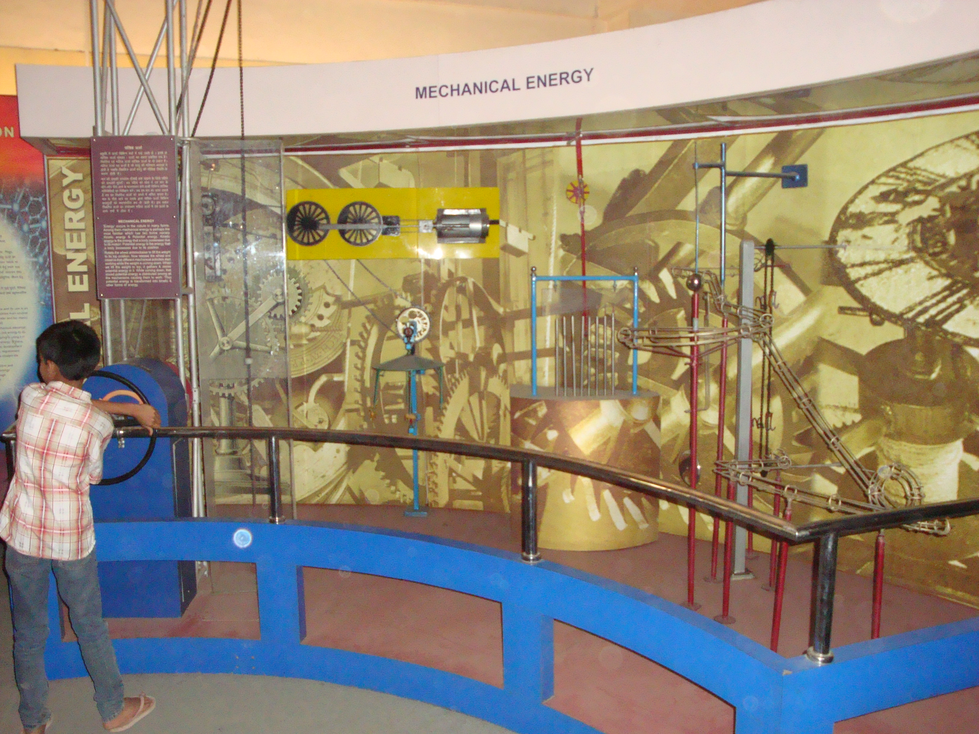 A Rube Goldberg machine-like demonstration of the mechanical energy at the Regional Science Centre, Bhopal.